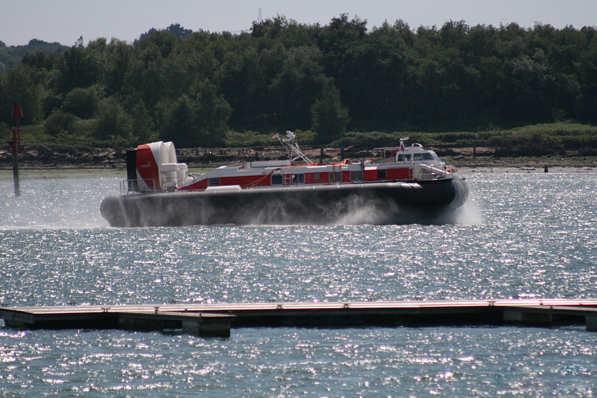 Singapore Airport Emergency Services Griffon 8000TD hovercraft on trials on Southampton Water